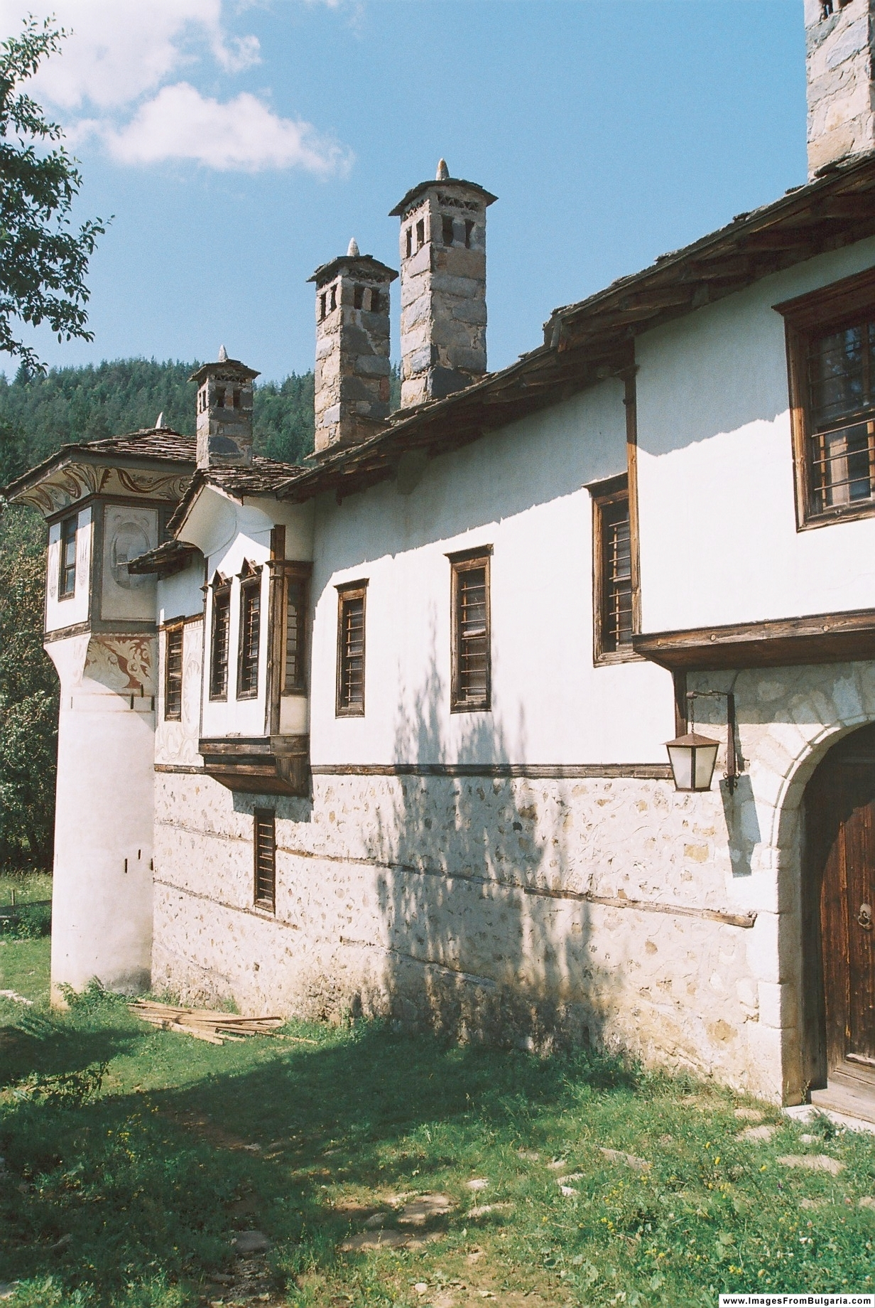 Mogilitsa, Smolyan Province, Bulgaria